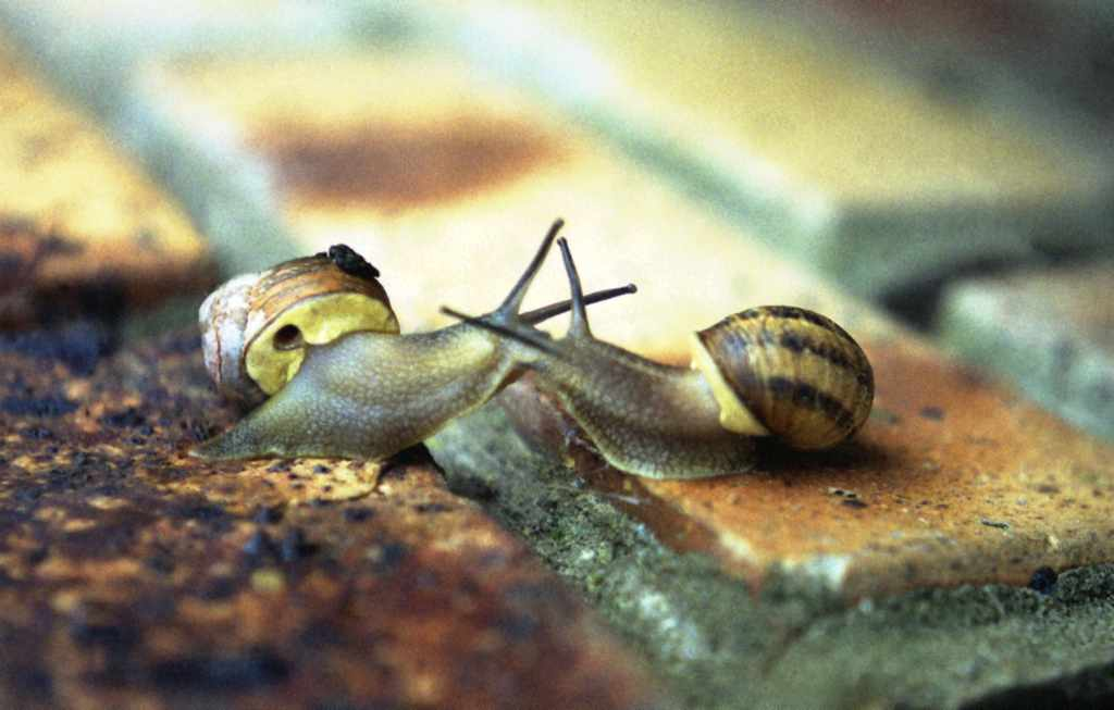 Two snails inspect each other prior to mating. Photograph taken with Yashica D-series Twin-lens reflex camera. Helix aspersa, determined 04 June 2011 by Francisco Welter-Schultes.